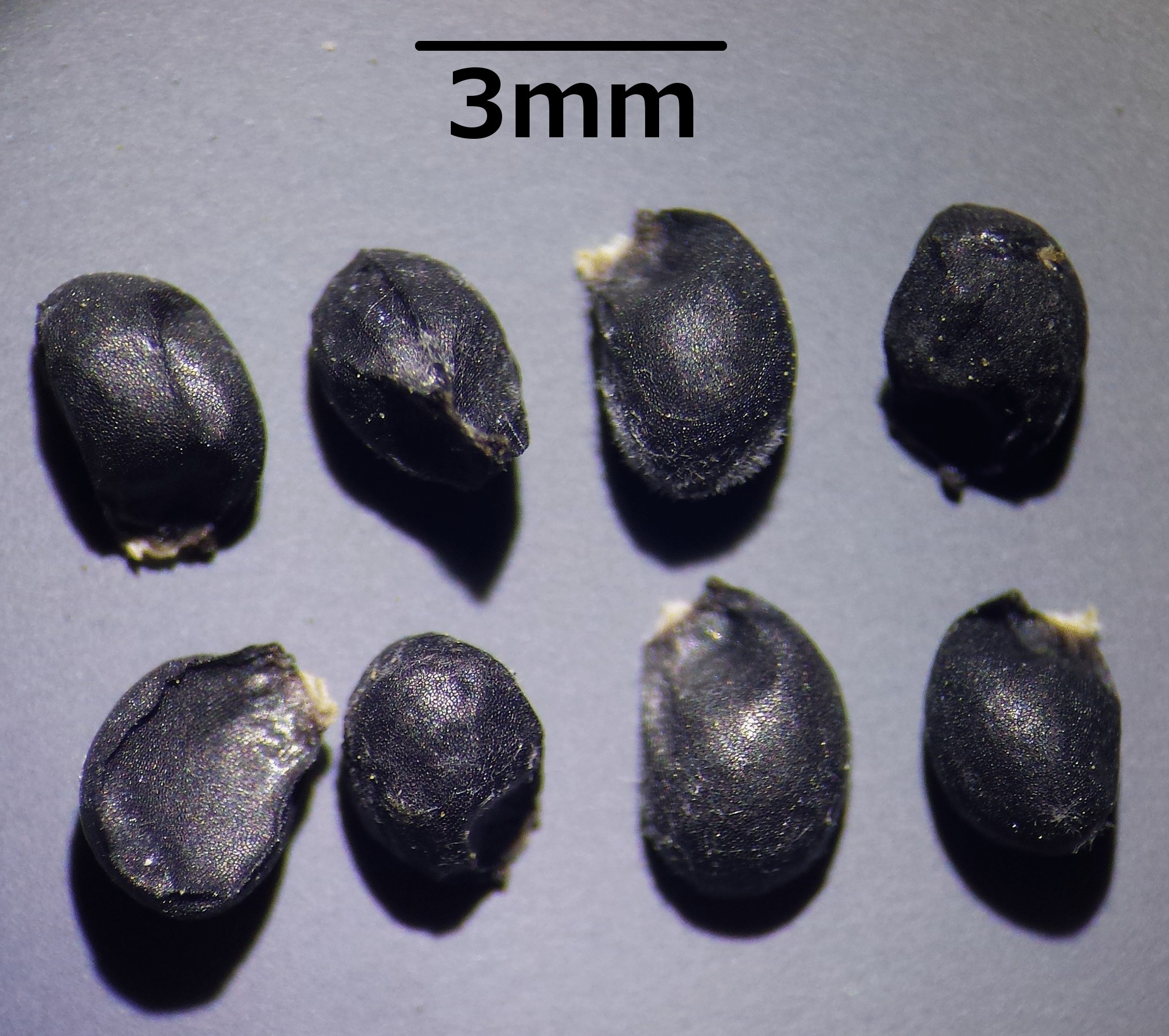 Seeds Taxon: Allium lusitanicum (sensu Fischer et al. EfÖLS 2008; det. M. A. Fischer 2013-10-19) Location: Mödlinger Klause near Schwarzer Turm, district Mödling, Lower Austria - ca. 300 m a.s.l. Habitat: pine wood